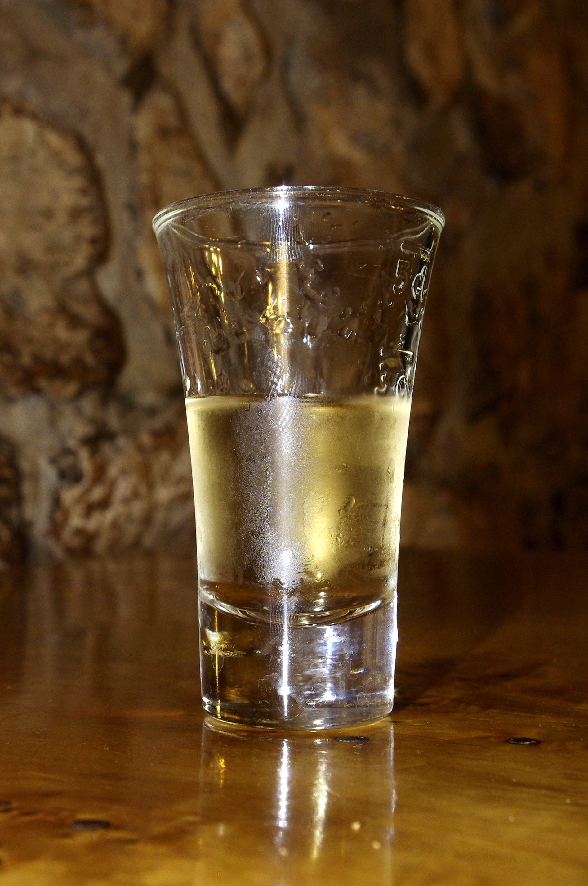 Barack palinka a hungarian apricot brandy, served cold with a glass of mineral water.